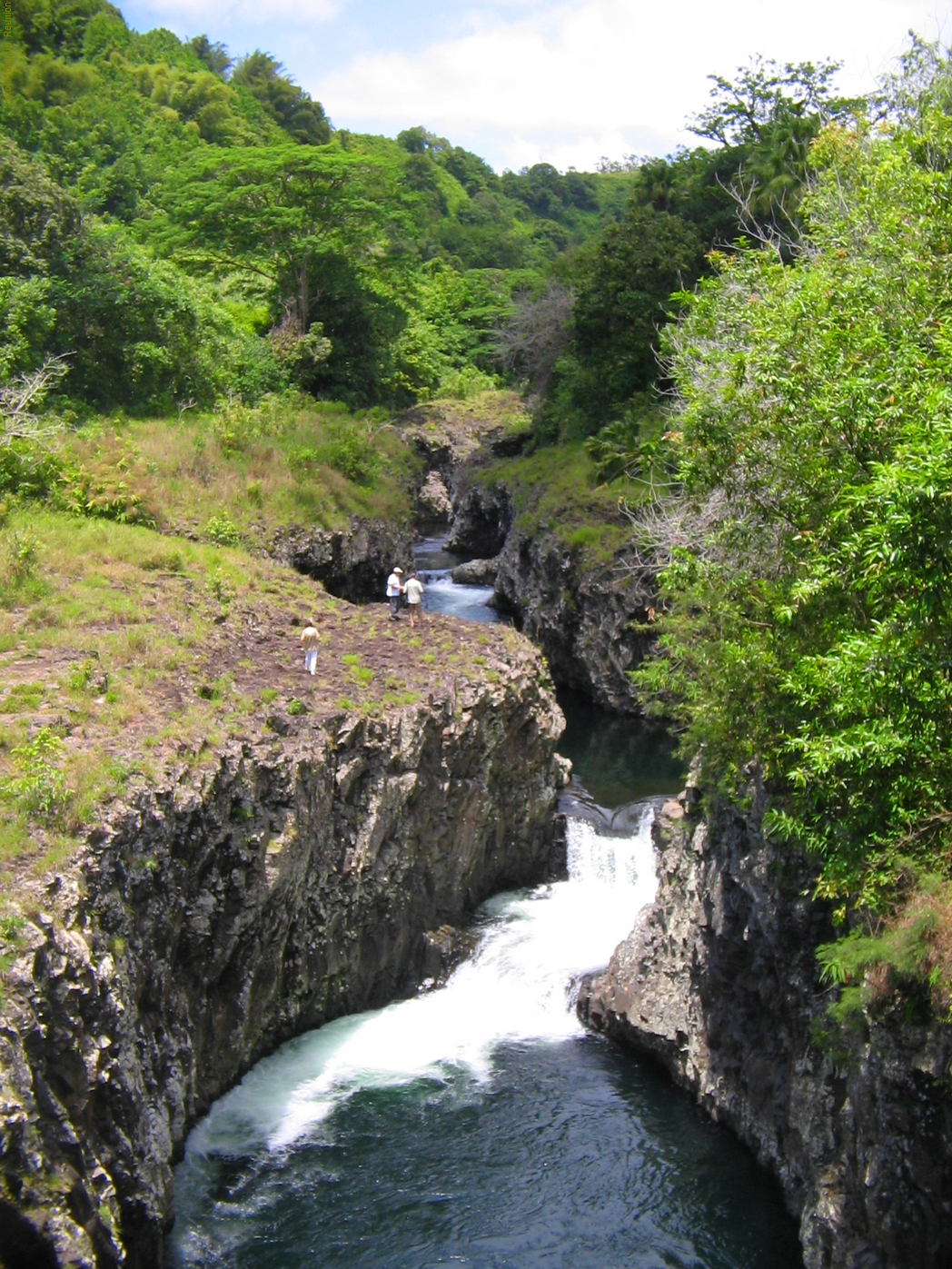 Rivière des Roches river near Bassin la Paix in Bras-Panon, Reunion